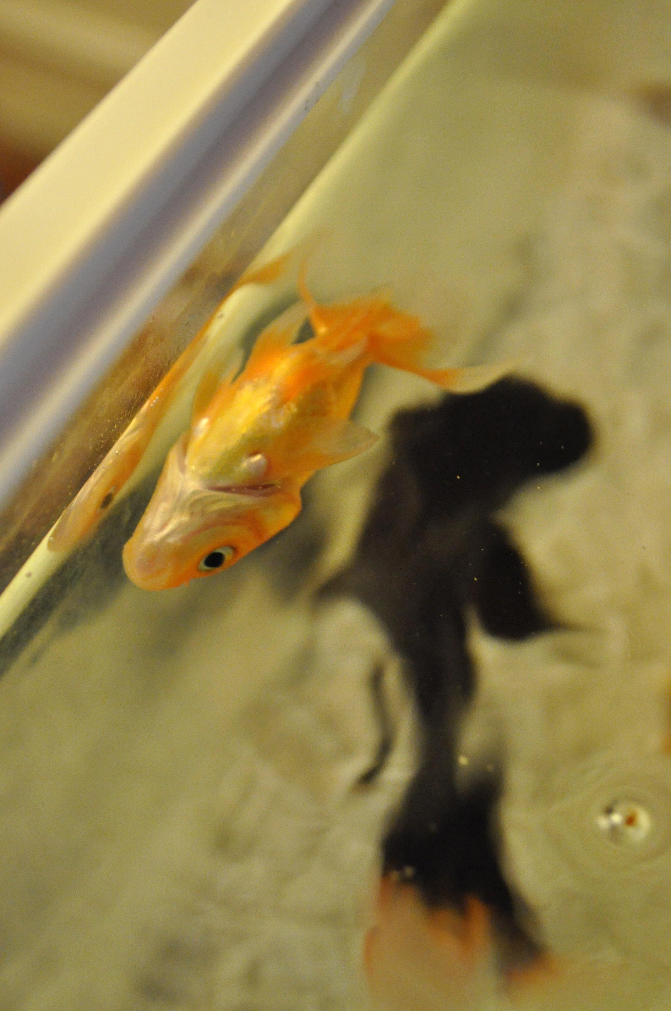 Upside-down Carassius auratus